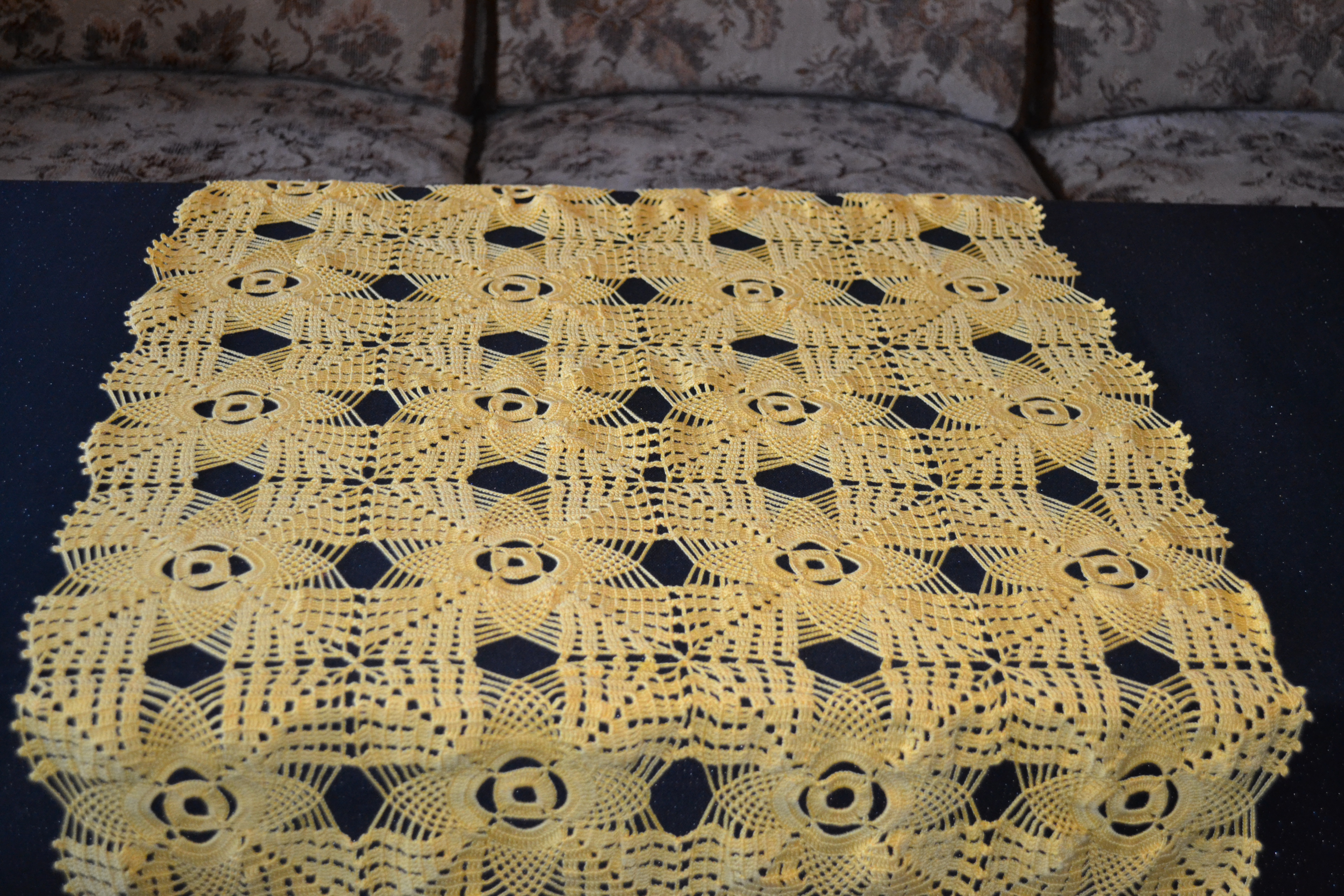 Crocheted tablecloth (own creation) in Lučenec (Slovakia)